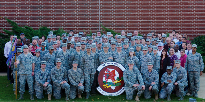 The 27th Intelligence Squadron poses after winning the Grant Award The 27th Intelligence Squadron recently earned the Lt. Gen. Harold W. Grant Information Dominance award, demonstrating itself as the best small communications and information unit in the U.S. Air Force. This award recognizes large and small cyberspace and information dominance squadrons for sustained superior performance and professional excellence while managing core cyberspace and information dominance functions, and for contributions that most improved Air Force Department of Defense operations and missions.